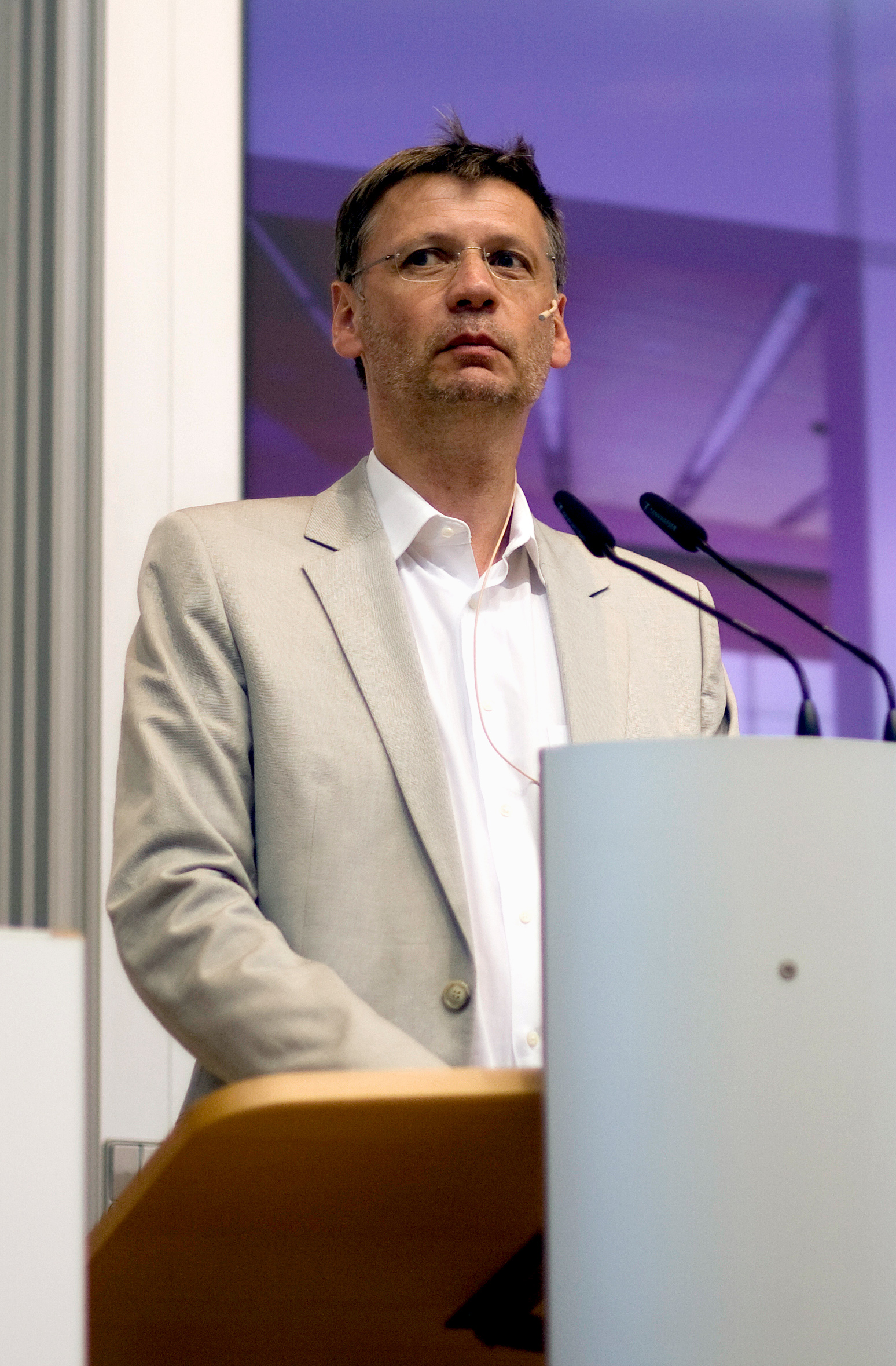 German tv-host, journalist and entrepreneur Günther Jauch holding a lecture on "success" at the Hasso Plattner Institute, University of Potsdam, Potsdam, Germany.